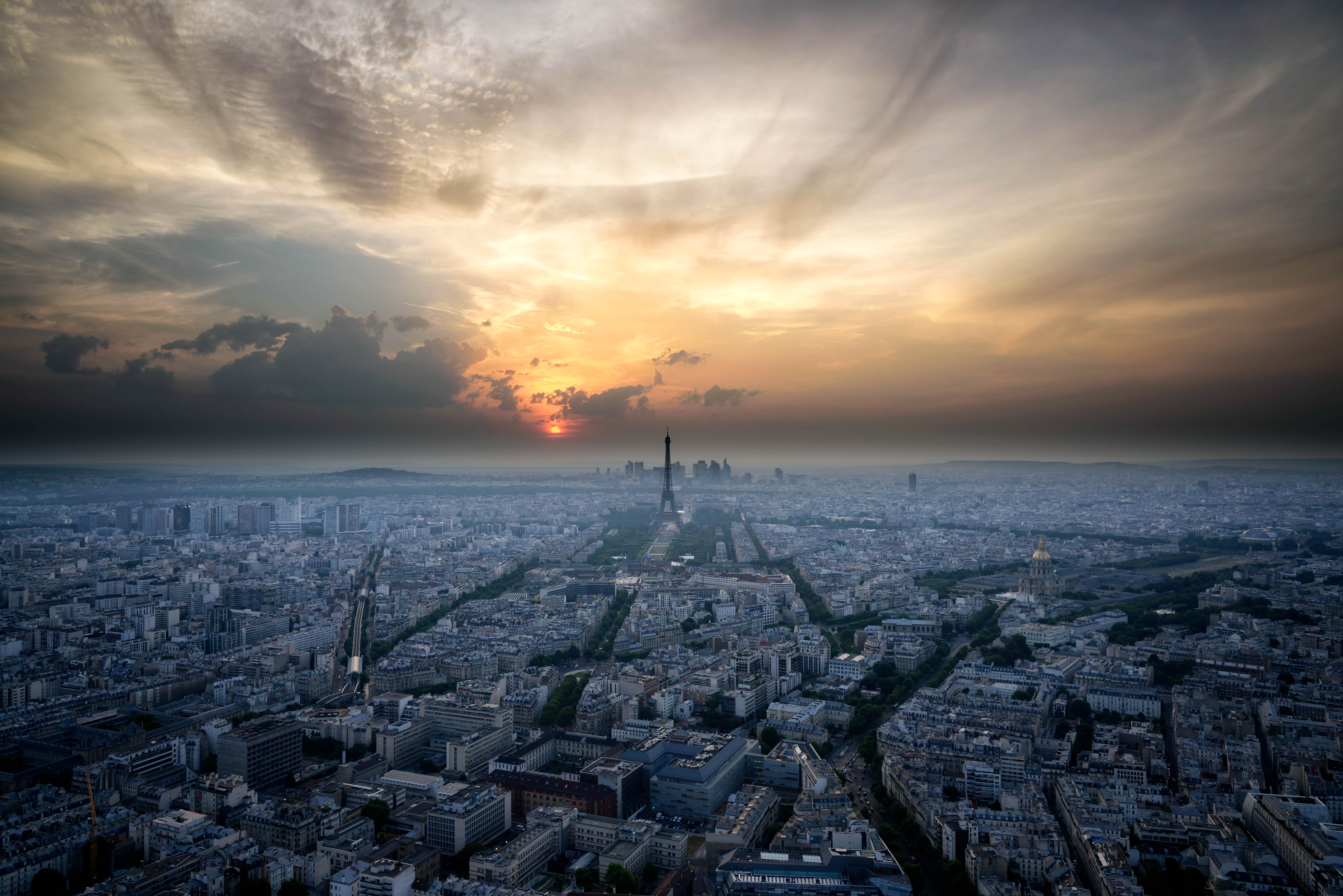 Paris skyline from the Montparnasse Tower.